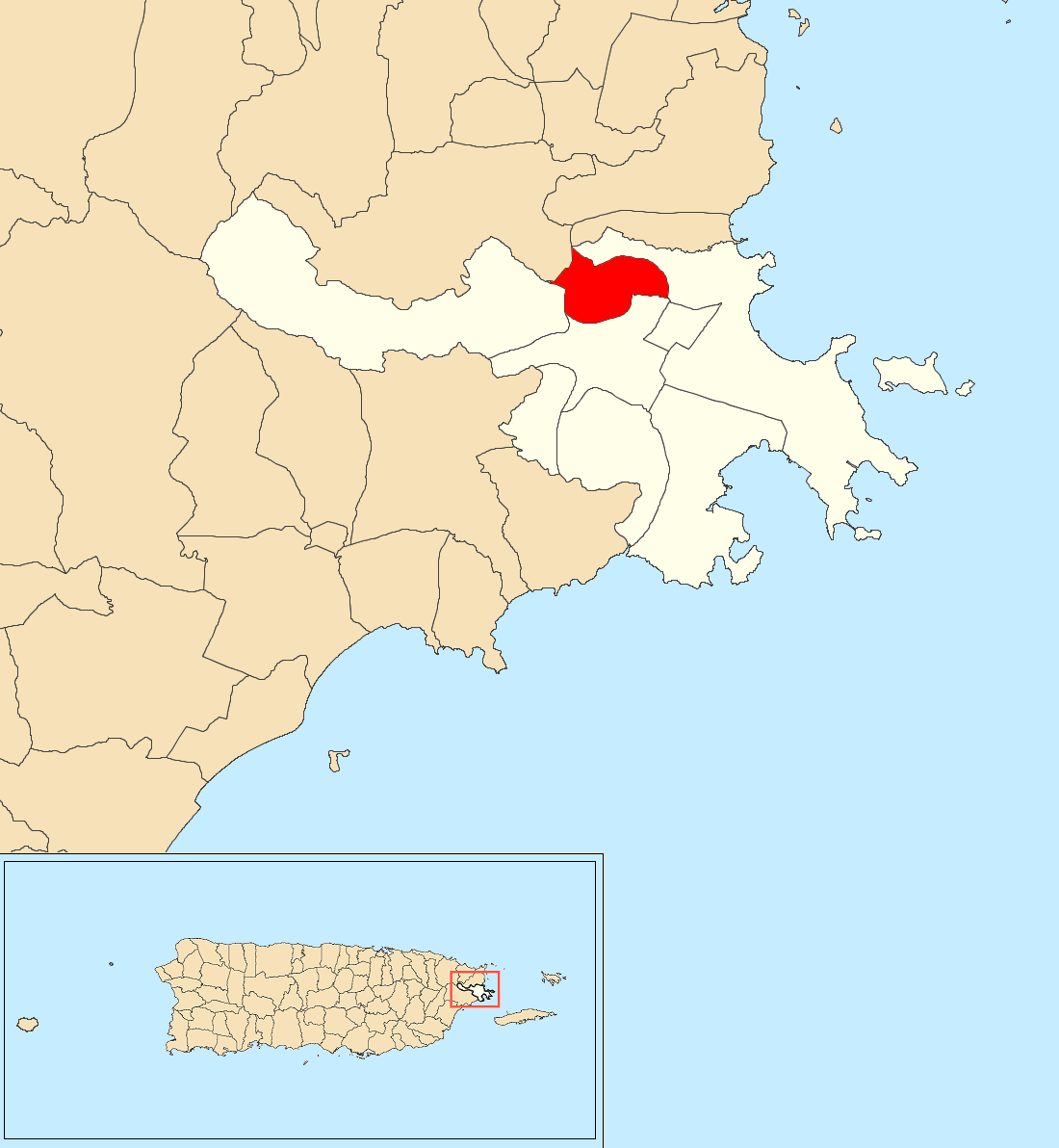 Saco, Ceiba, Puerto Rico locator map